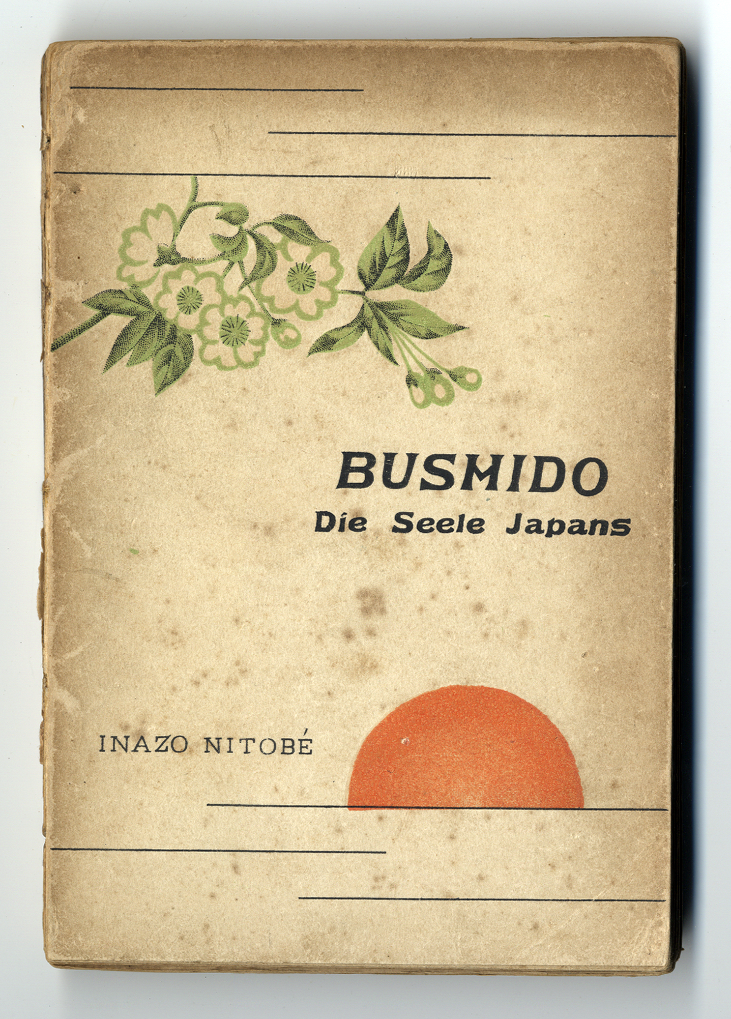 Book case of the German edition of Inazo Nitobe's "Bushido - Die Seele Japans" (1901)